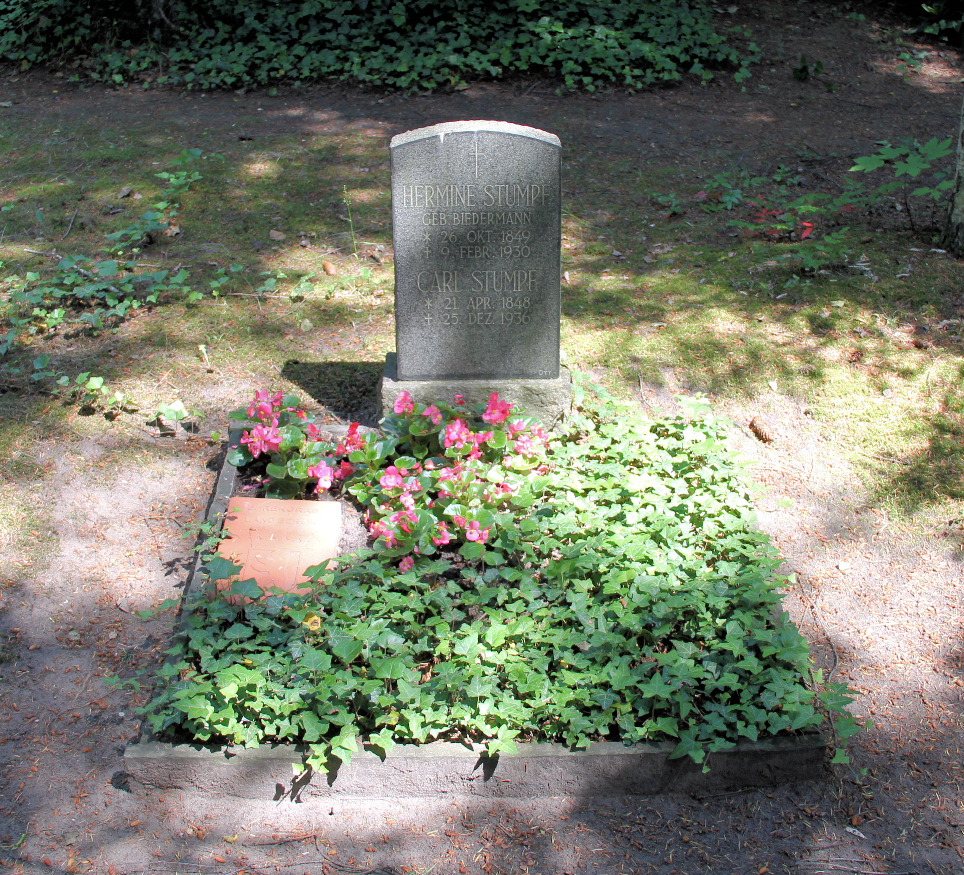 "Ehrengrab" (grave of honor), Carl Stumpf, Thuner Platz 2-4, Berlin-Lichterfelde, Germany Koordinate:52°25′24″N 13°17′45″E / 52.42333°N 13.29583°E